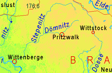 Part of Physical map of Mecklenburg-Vorpommern/Brandenburg: Dark green figures = soil above sea level in meters dark blue figures = water level above sea level in meters dark blue arrows = direction of water flow lilac = water bodies crossing divides